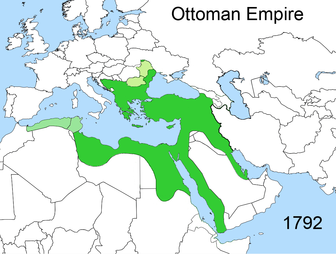 Territorial changes of the Ottoman Empire